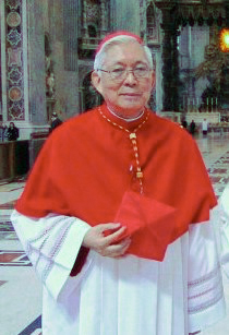 Photo of Gaudencio Cardinal Rosales inside the St. Peter's Basilica circa March 2006.